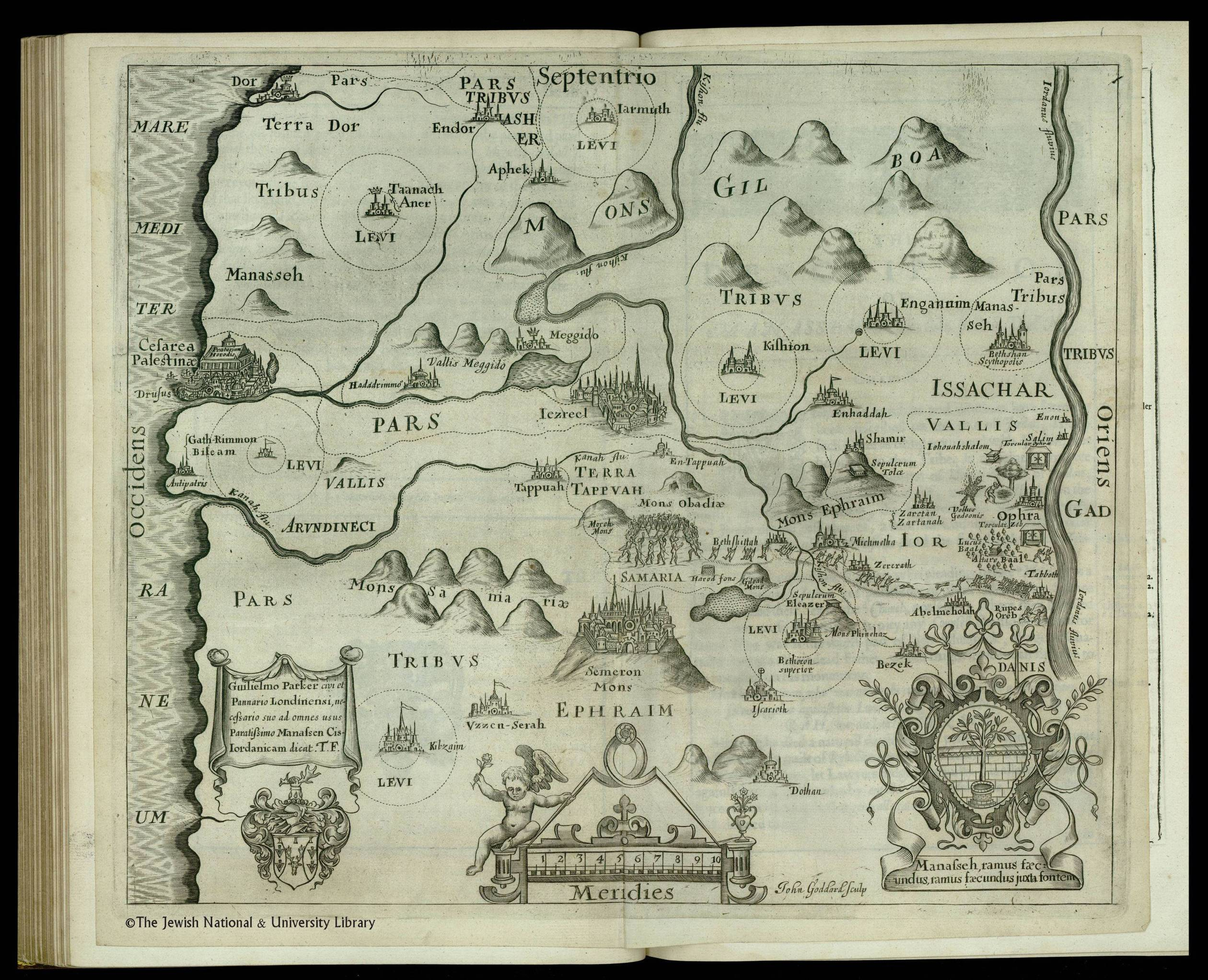 A map of the Tribe of Manasseh